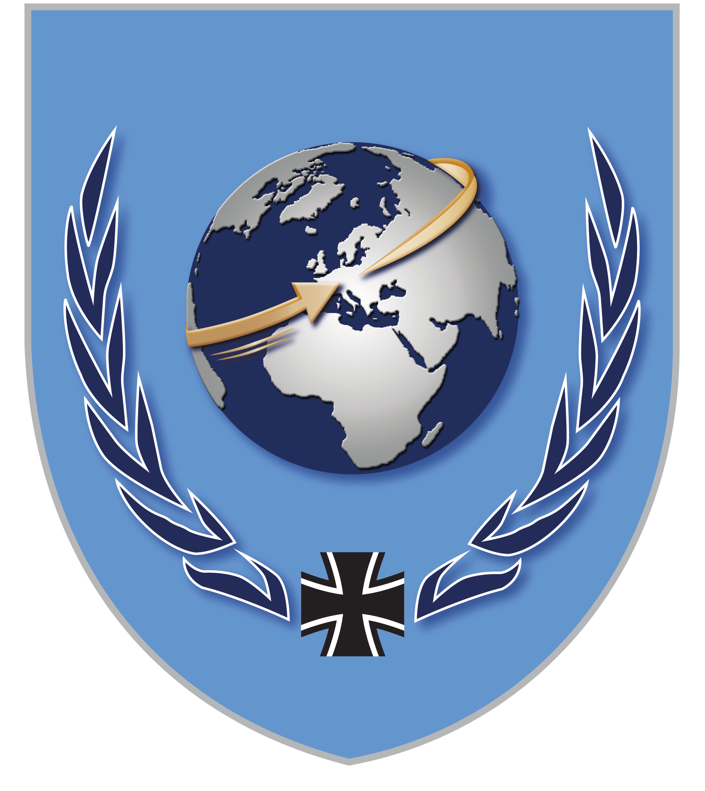 internal cote of arms of Vereinte Nationen Ausbildungszentrum Bundeswehr